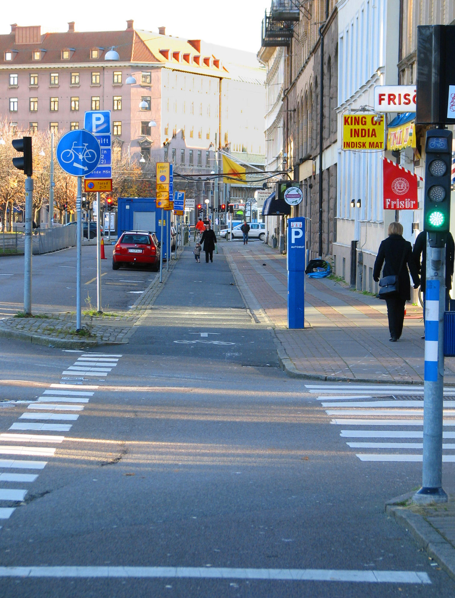 A bicycle lane clearly announced by a sign and a painted symbol, along with some indirect clues. Första Långgatan, Göteborg, Sweden.